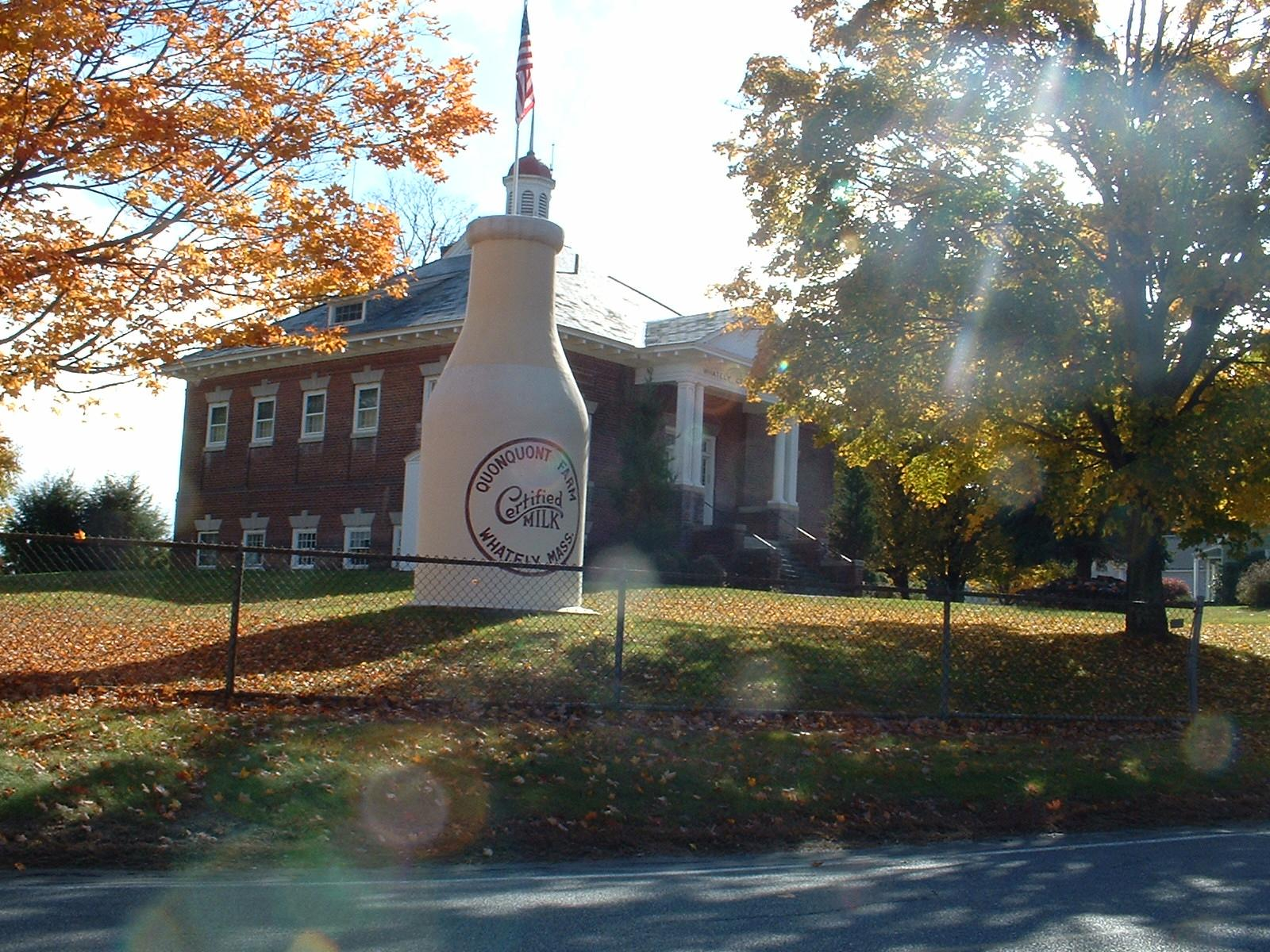 The "Whately Milk Bottle", a local landmark in Whately, Massachusetts. The milk bottle is a replica of a Quonquont Dairy bottle, and is located on the corner Christian Lane and Chestnut Plain Road, in front of the former Whately Central School. Christian Ln & Chestnut Plain Rd, Whately, MA